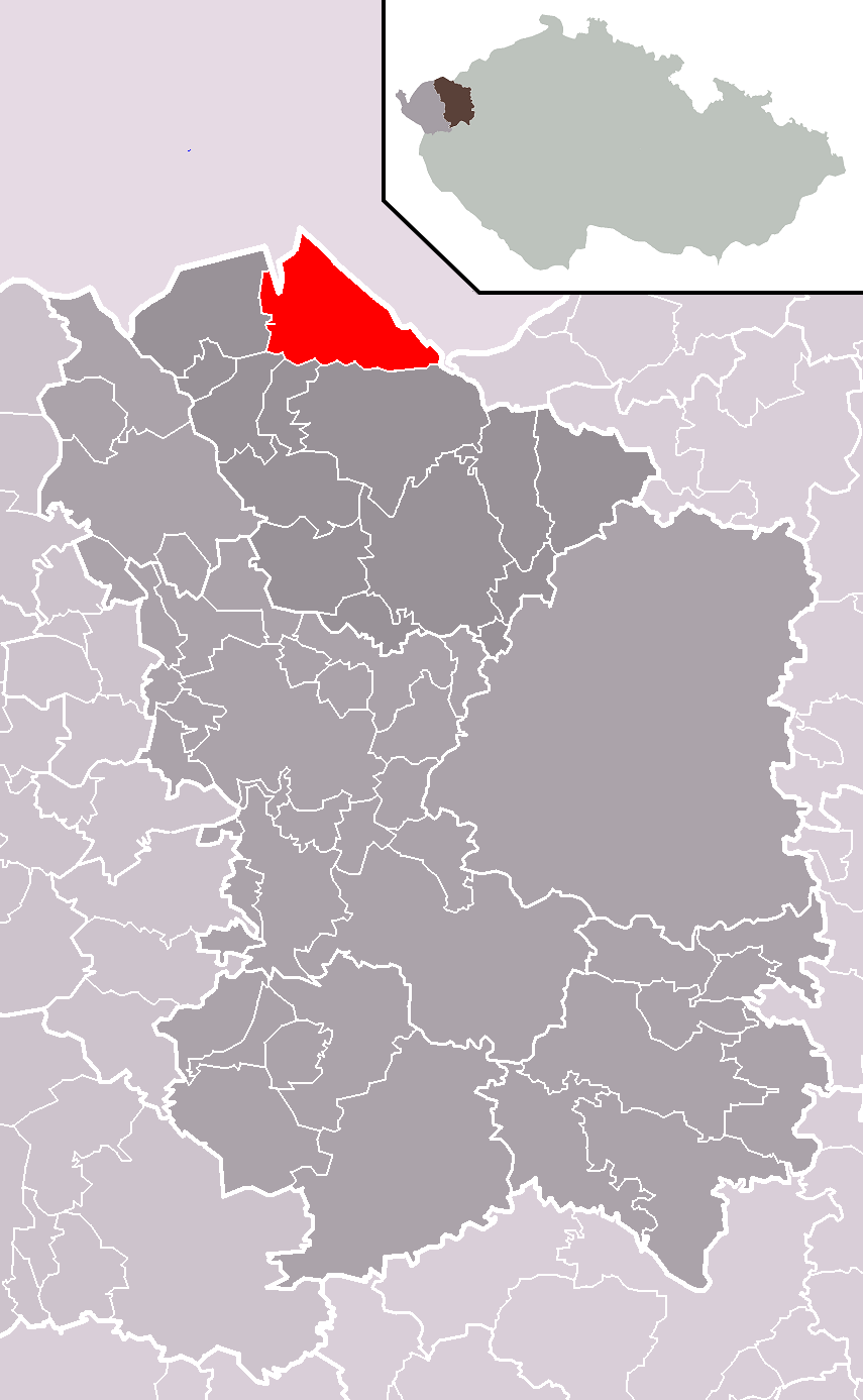 Location of Boží Dar town within Karlovy Vary District and administrative area of Ostrov as a Municipality with Extended Competence.